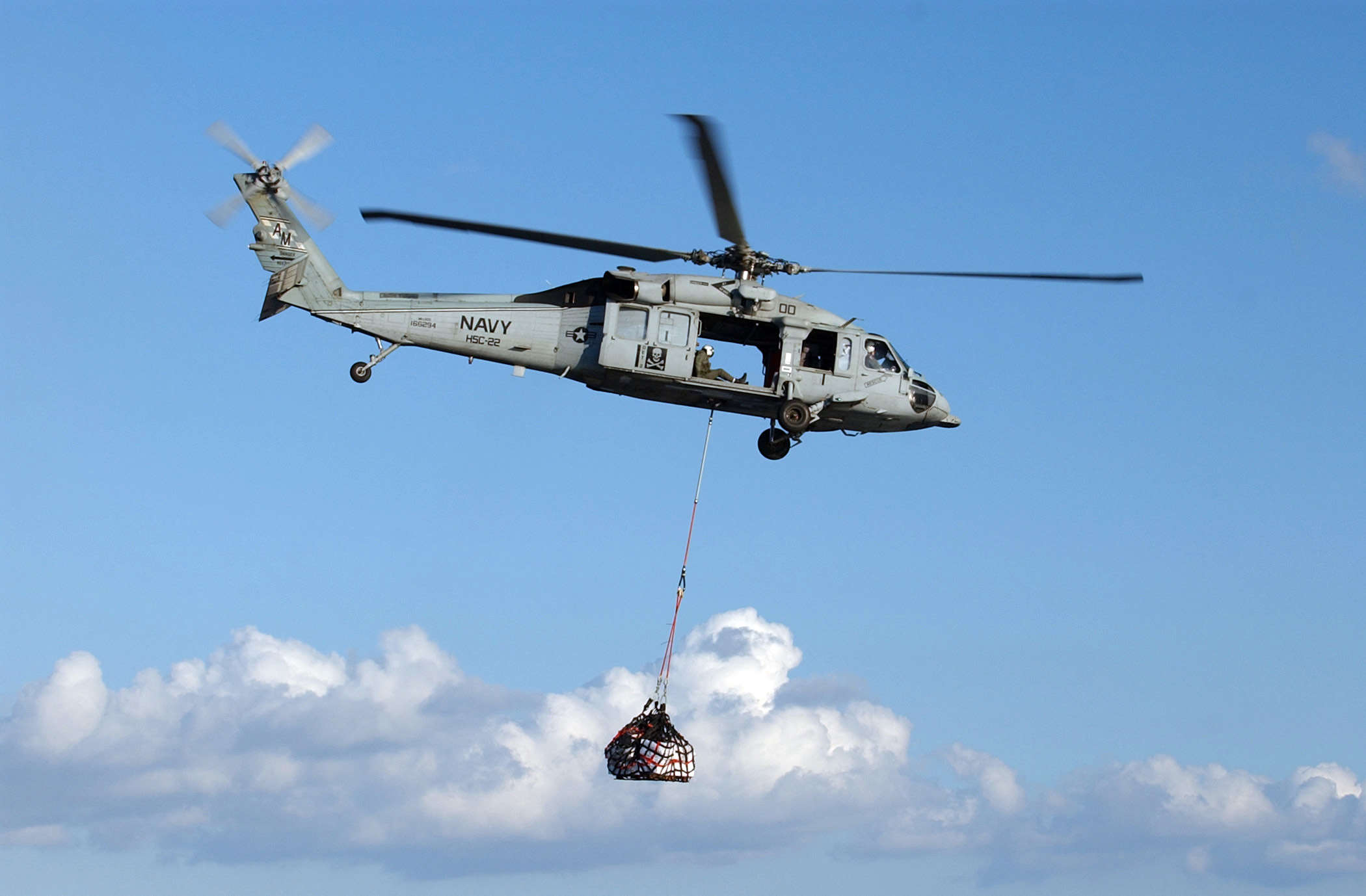 MEDITERRANEAN SEA (Nov. 18, 2007) An MH-60S Seahawk, assigned to the "Sea Knights" of Helicopter Sea Combat Squadron (HSC) 22, Det. 2, transports supplies to the guided-missile destroyer USS Bainbridge (DDG 96) during a vertical replenishment. Bainbridge is the acting flagship for Rear Adm. Michael K. Mahon, commander of Standing NATO Maritime Group (SNMG) 1. SNMG1 is one of NATO's four joint maritime task forces. U.S. Navy photo By Mass Communication Specialist 3rd Class Vincent J. Street (Released)